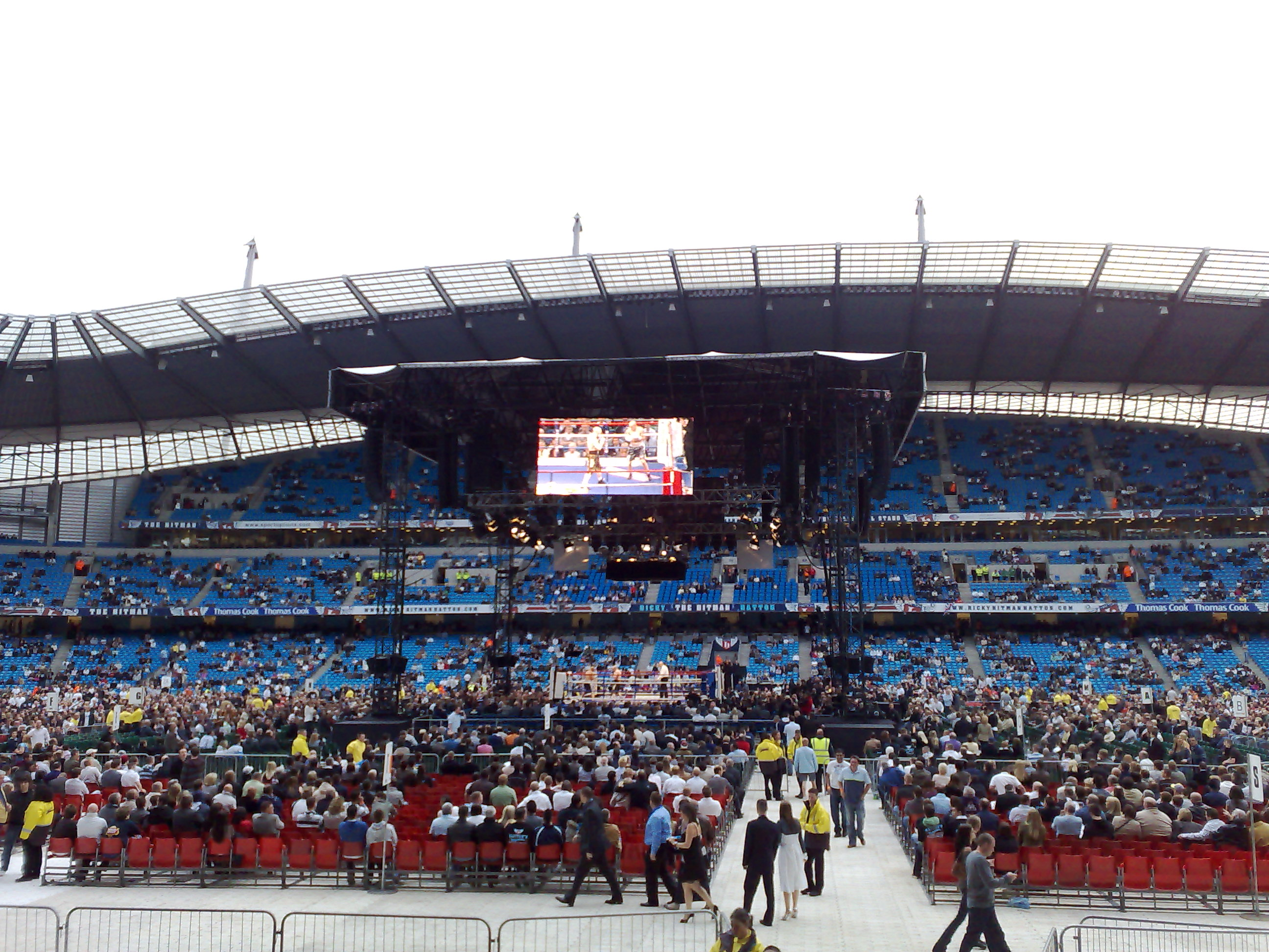 Crowd at the City of Manchester stadium